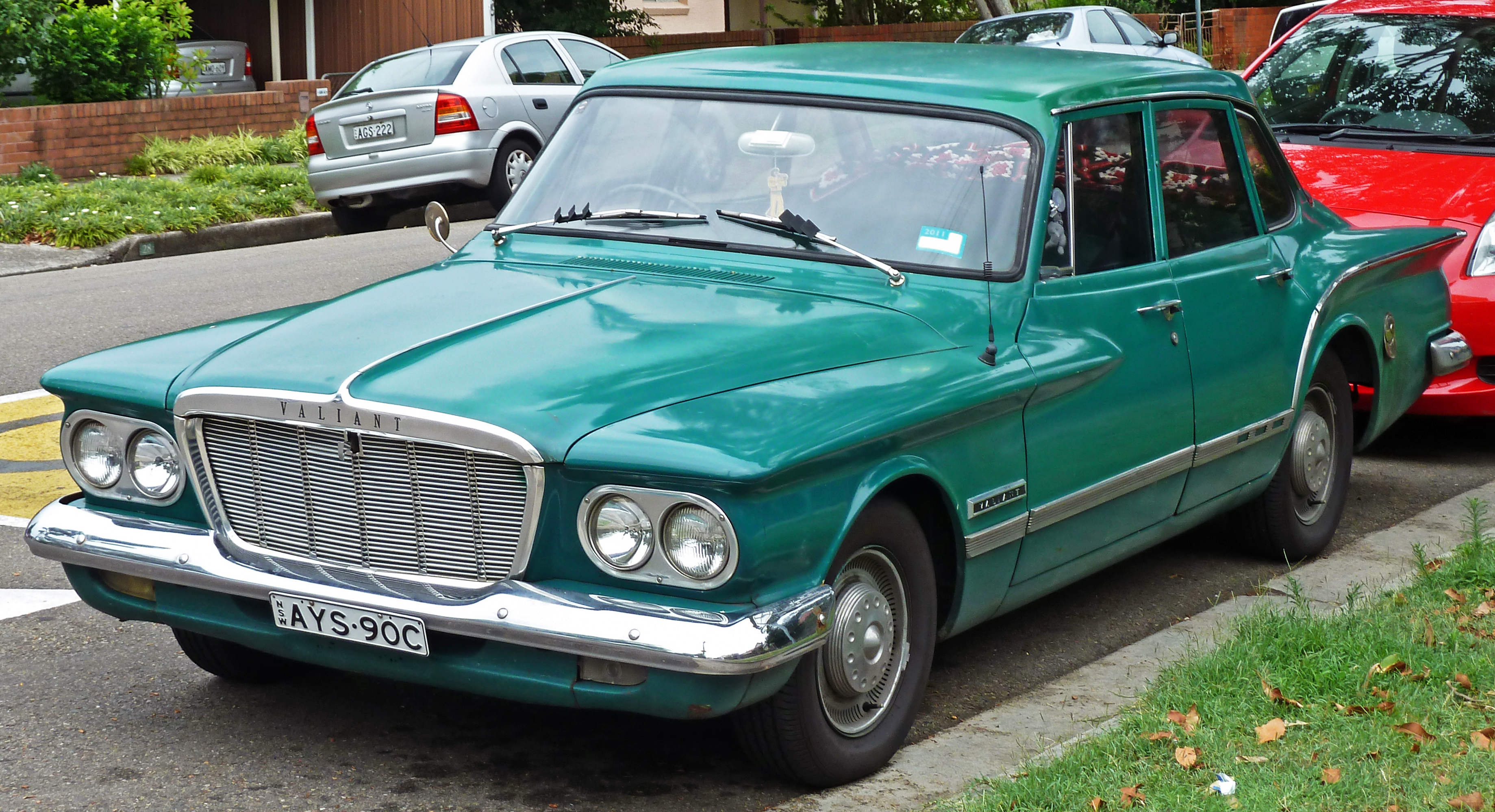 1962 Chrysler SV1 Valiant (S Series) sedan. Photographed in Rose Bay, New South Wales, Australia.